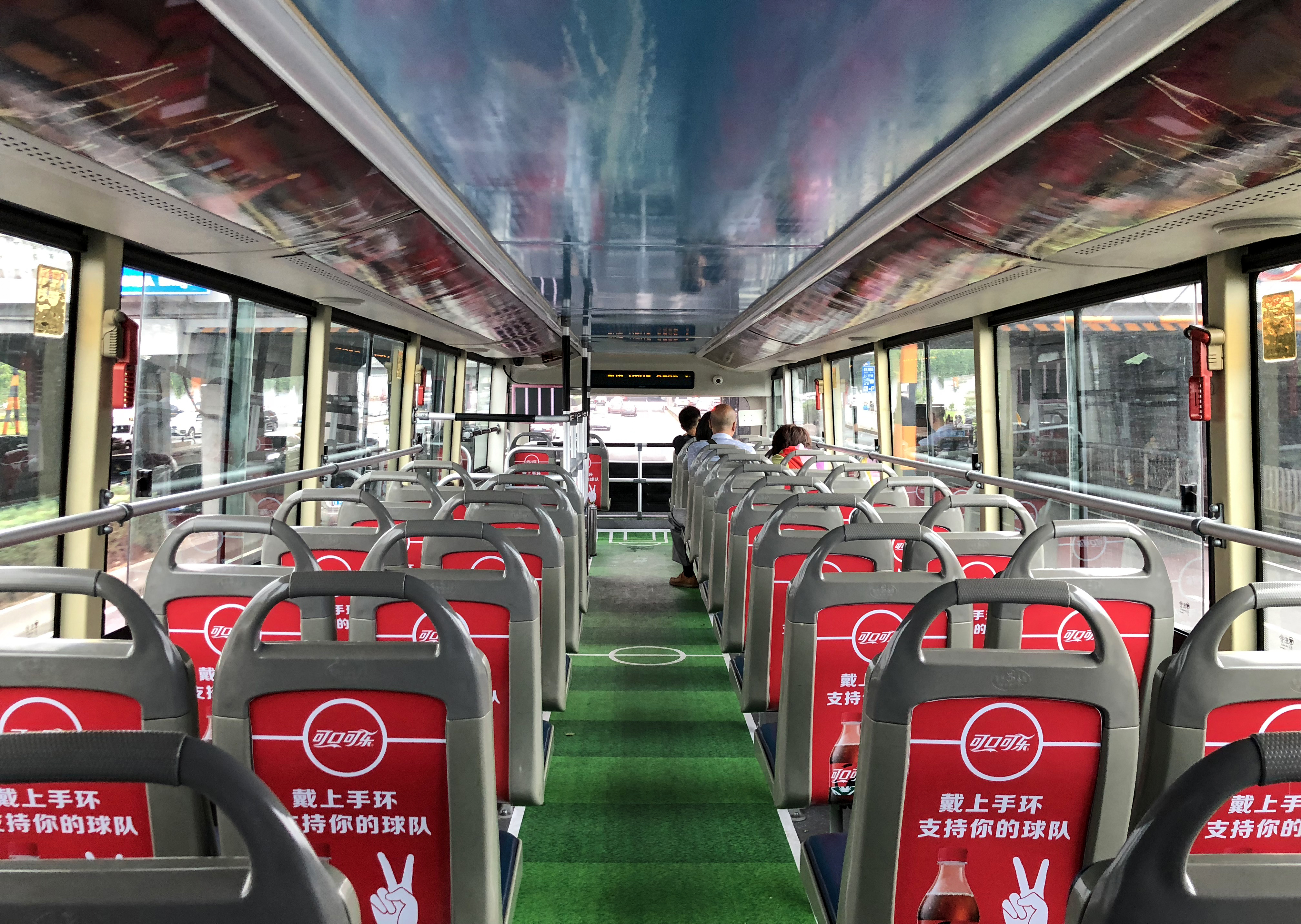 From rear to front - Coca-Cola advertisement everywhere.